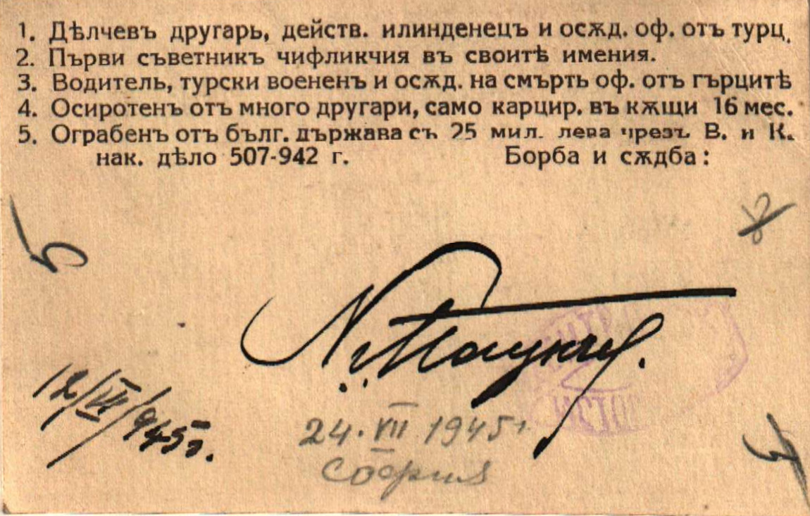 Nikola Paunchev